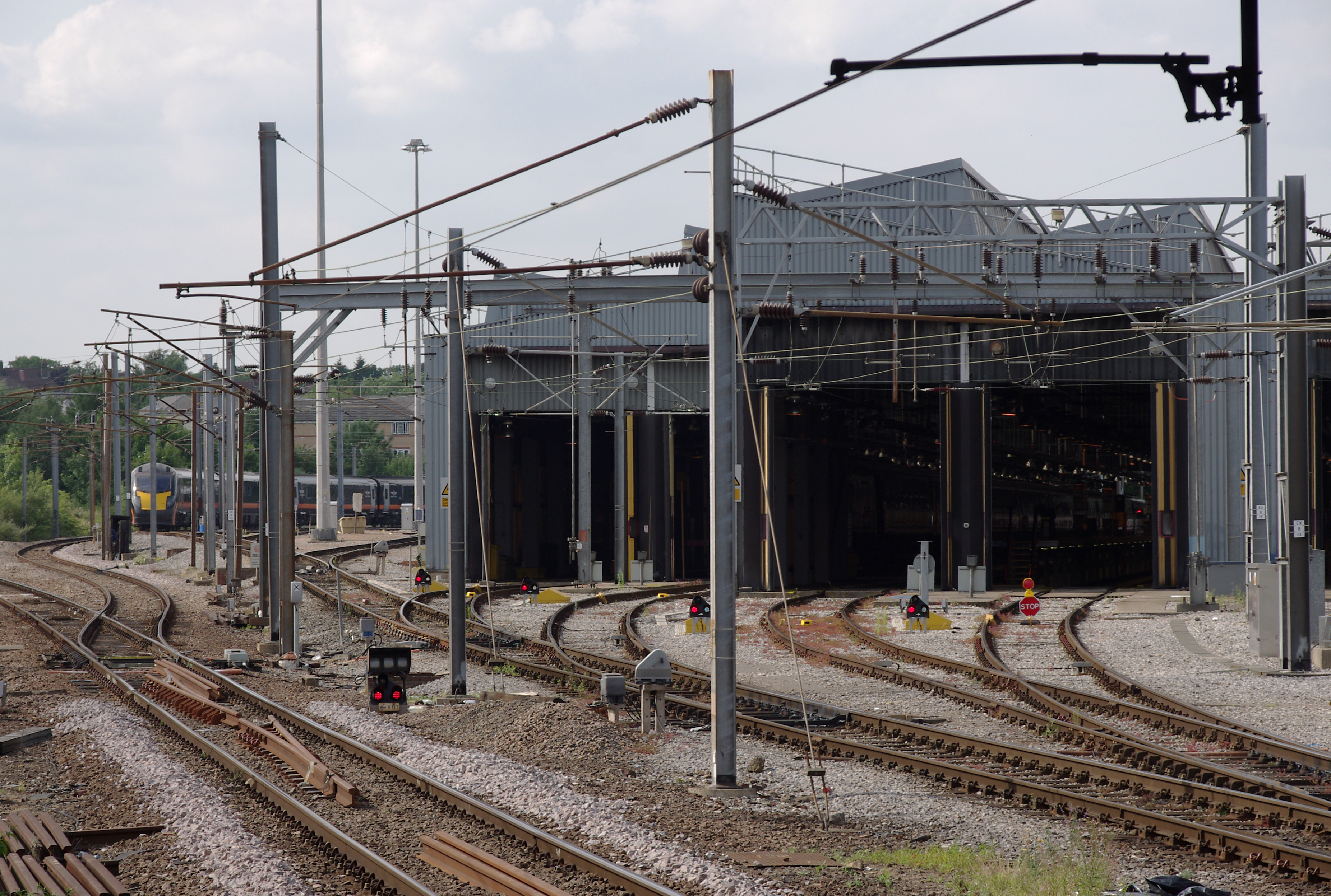 A Grand Central 180 stands beside Bounds Green TMD, viewed from the end of Alexandra Palace railway station.